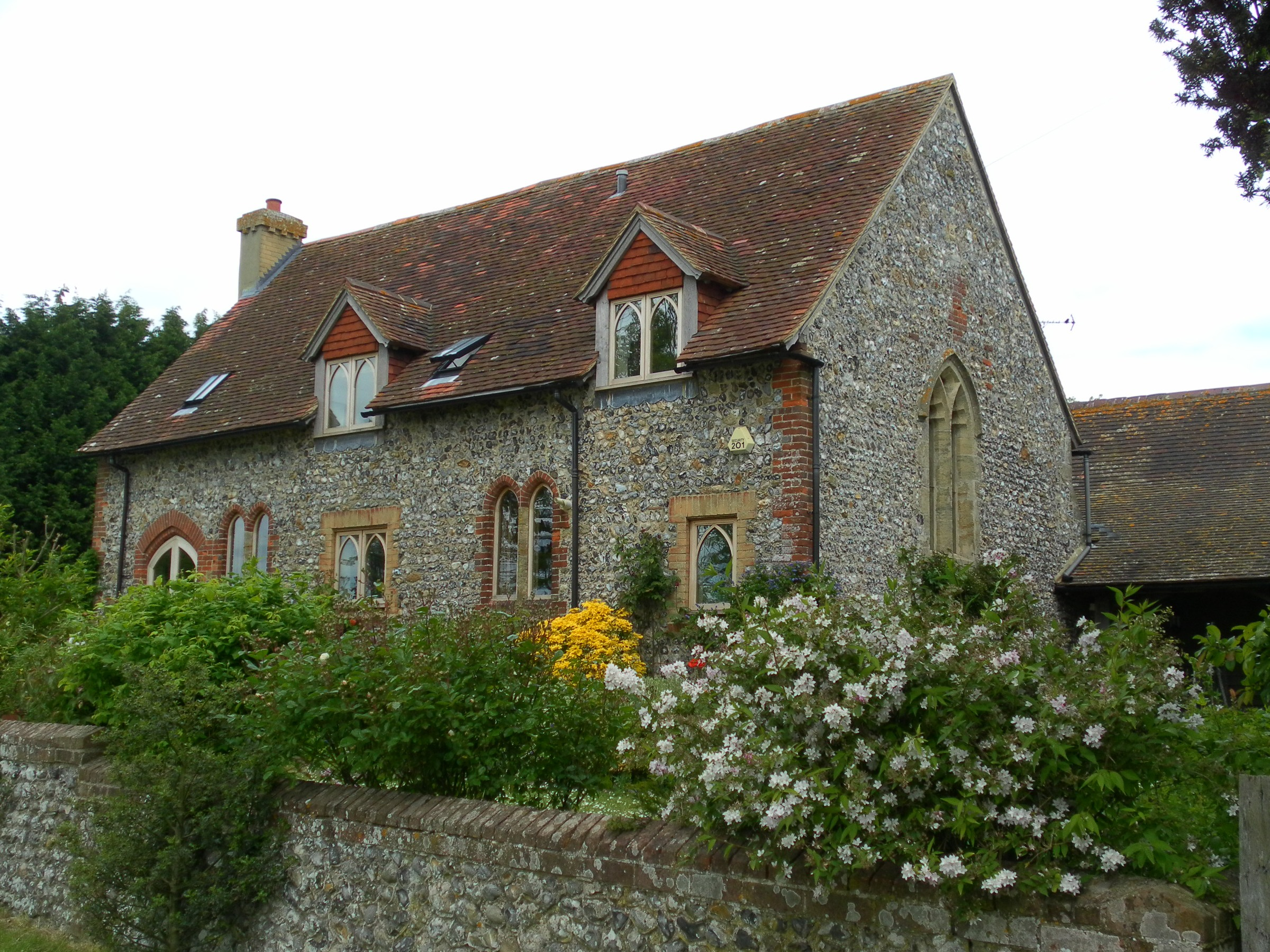 Former Bilsham Chapel, Bilsham Lane, Bilsham, Arun District, West Sussex, England. A 13th/14th-century chapel which fell out of use before the Reformation and is now a house. Listed at Grade II by English Heritage (NHLE Code 1222544)